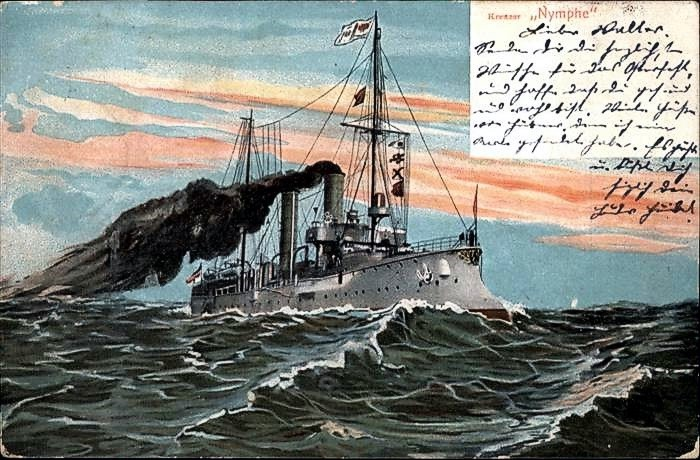 SMS Nymphe (Gazelle class)